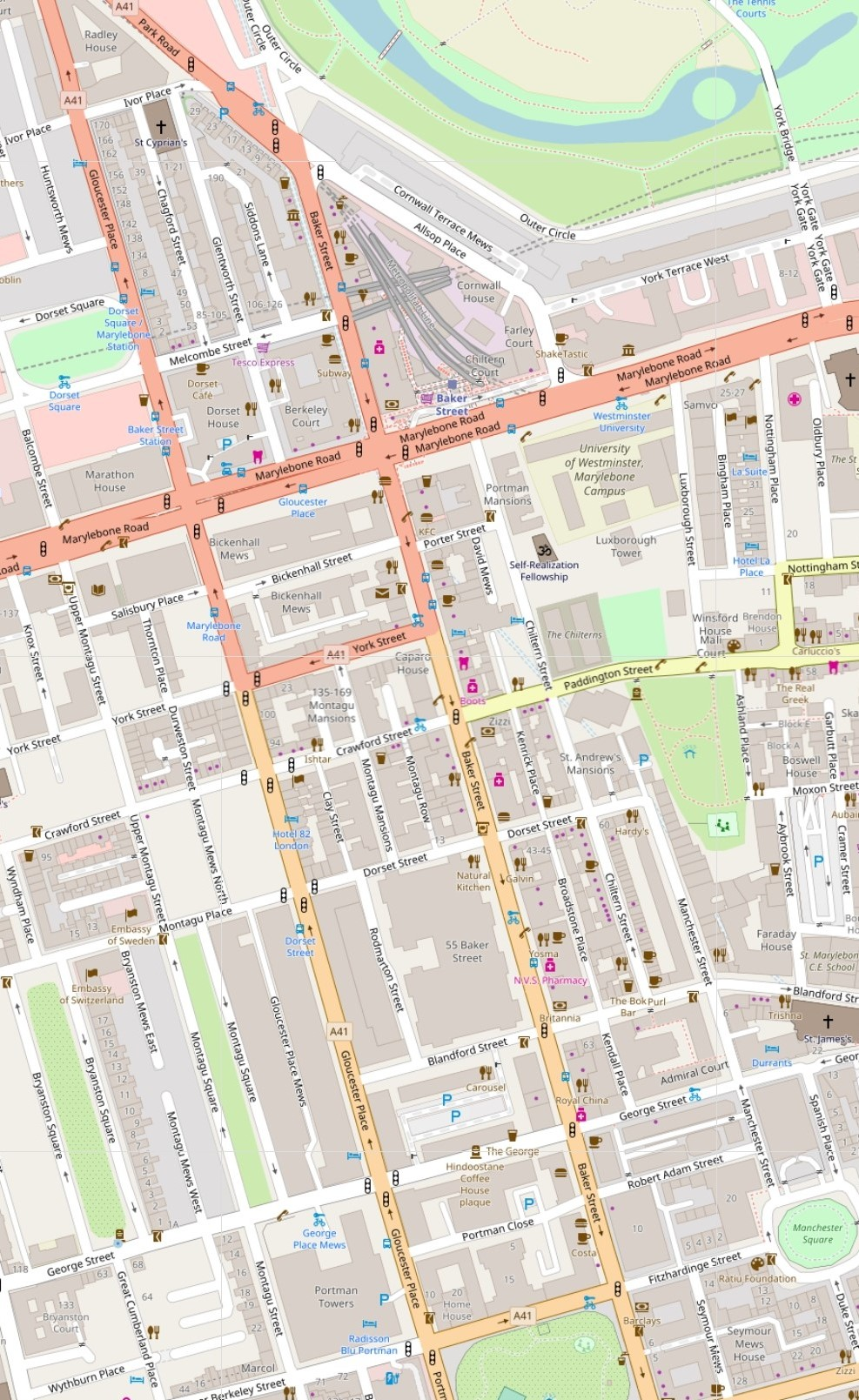 Baker Street map Open Street Map